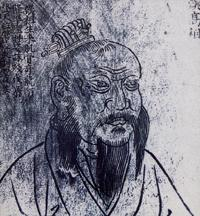 Emperor Gaozu of Han.